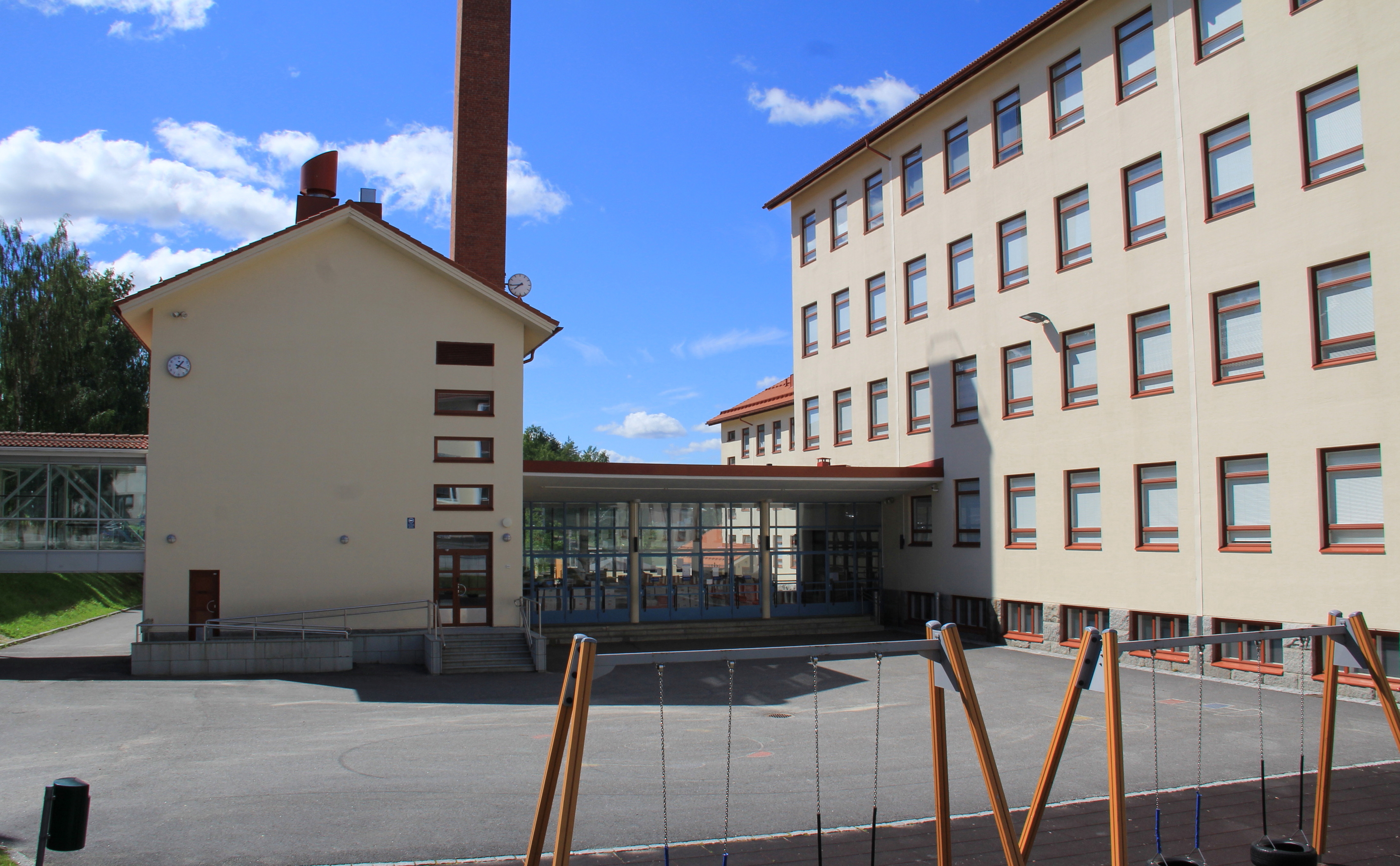 Kajaani central primary school, Kajaani, Finland.